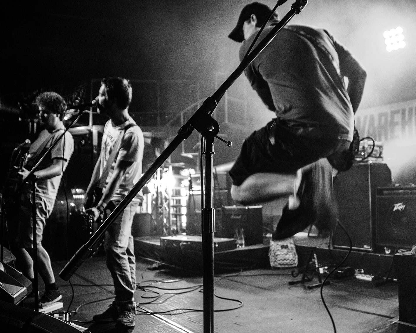 Half Price on stage in Windhoek